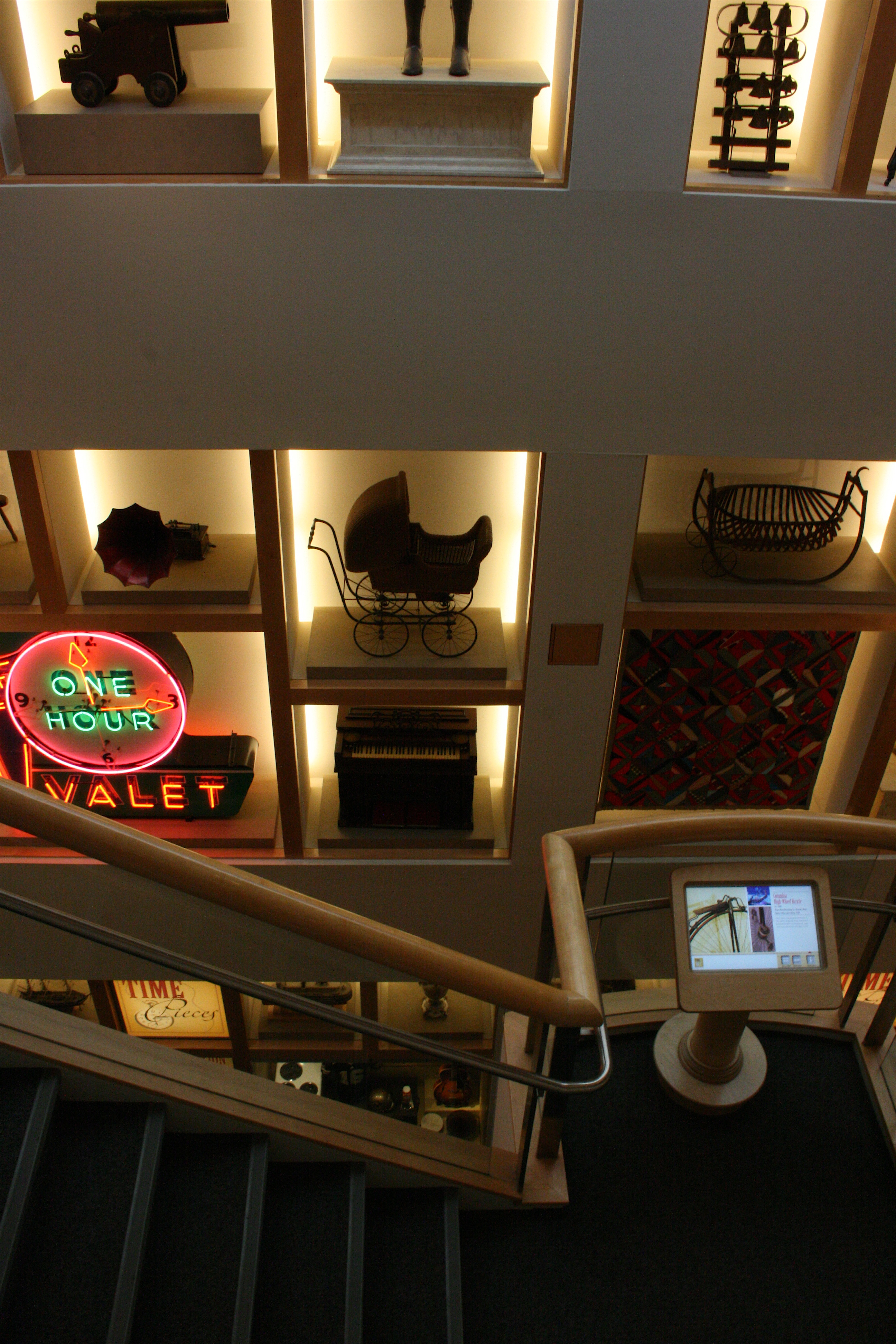 The wall showing the wide variety of items acquired by the Kalamazoo Valley Museum in downtown Kalamazoo, MI.